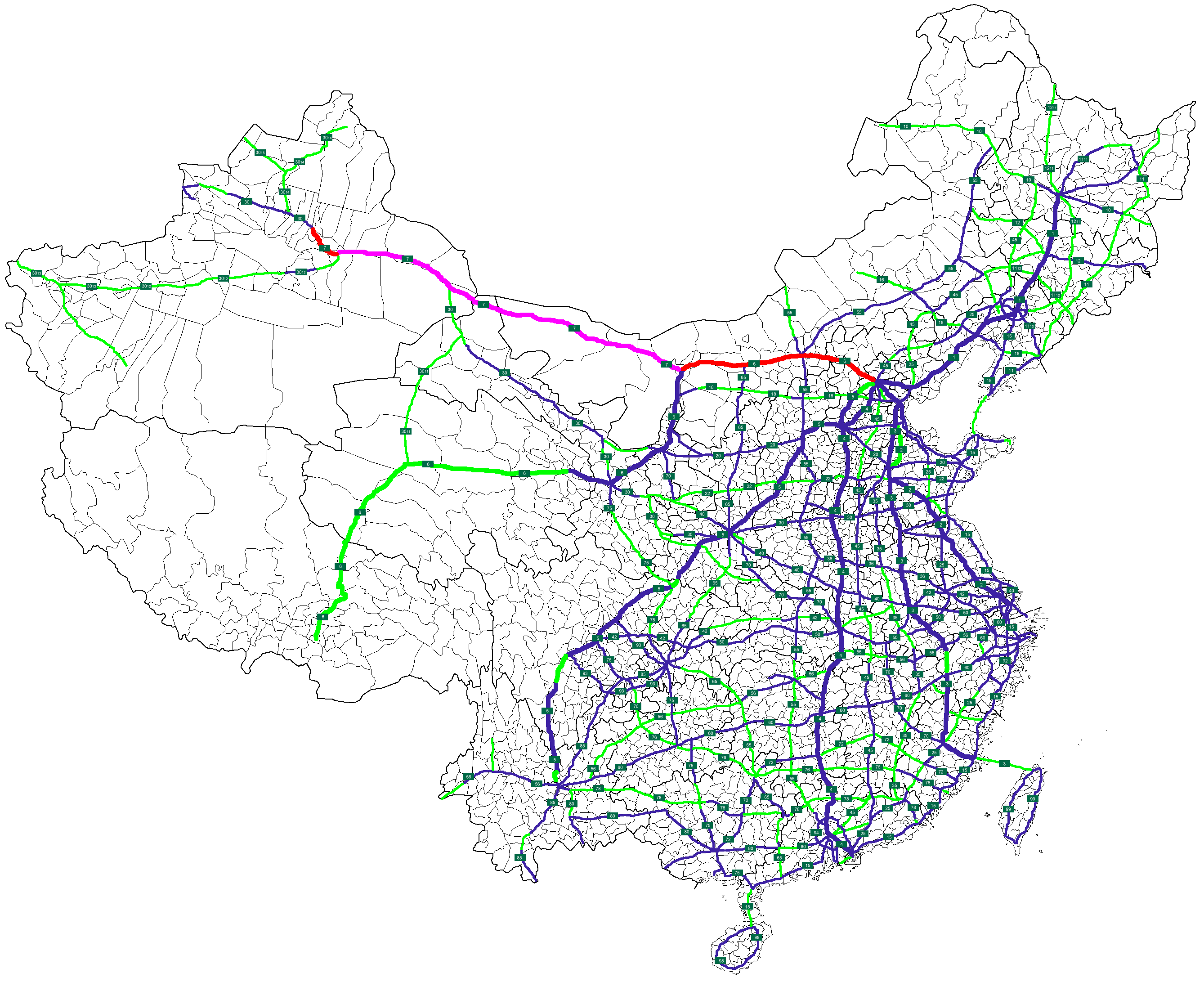 Source file(Map of NTHS Expressways of China.png) was uploaded ASDFGH at en.wikipedia. Later version(s) were uploaded by Nima Farid at en.wikipedia. Modification for NTHS Expressway G7 is my own work.